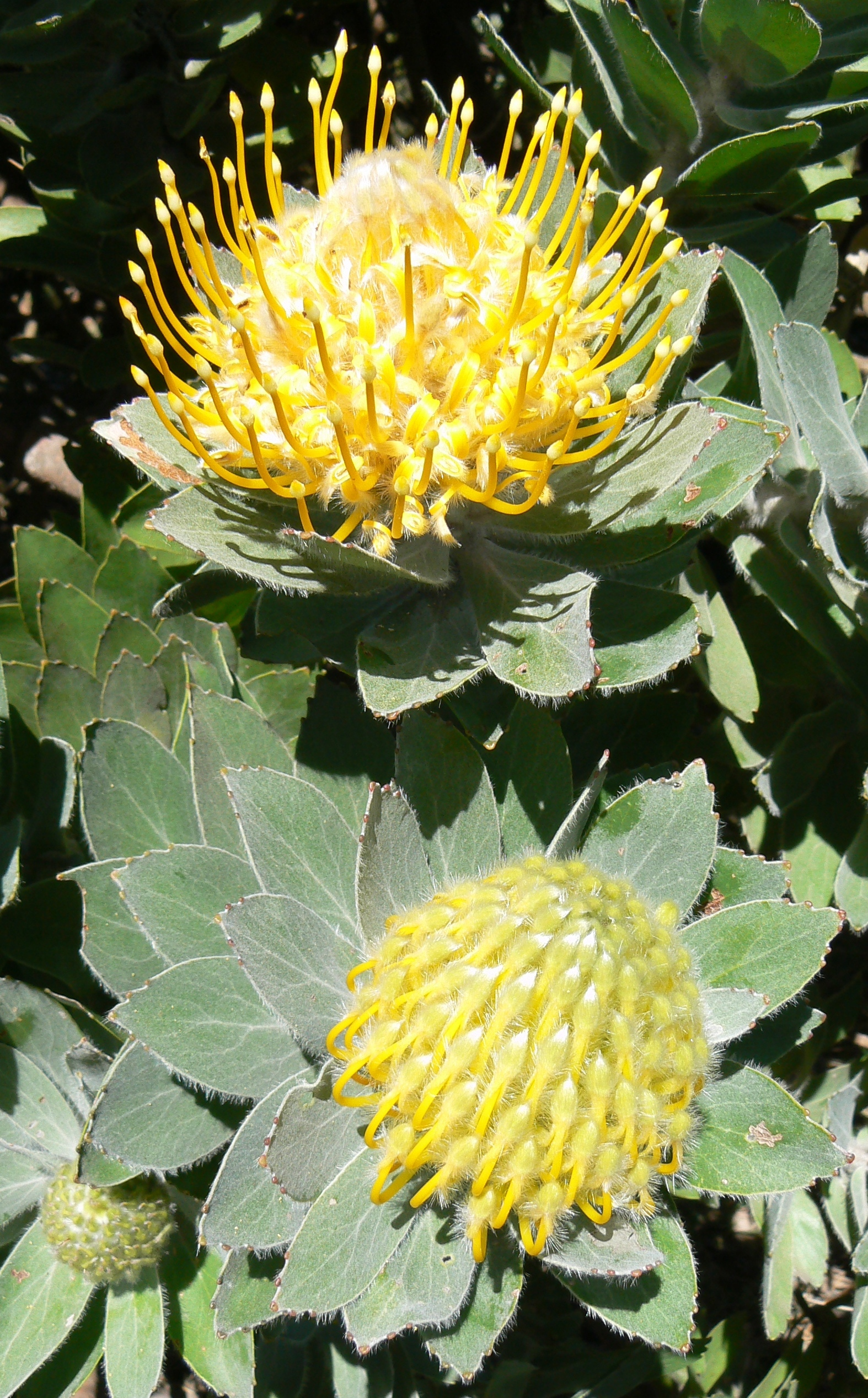 Leucospermum conocarpodendron subspecies conocarpodendron. Table Mountain Tree Pincushion. Cape Town.